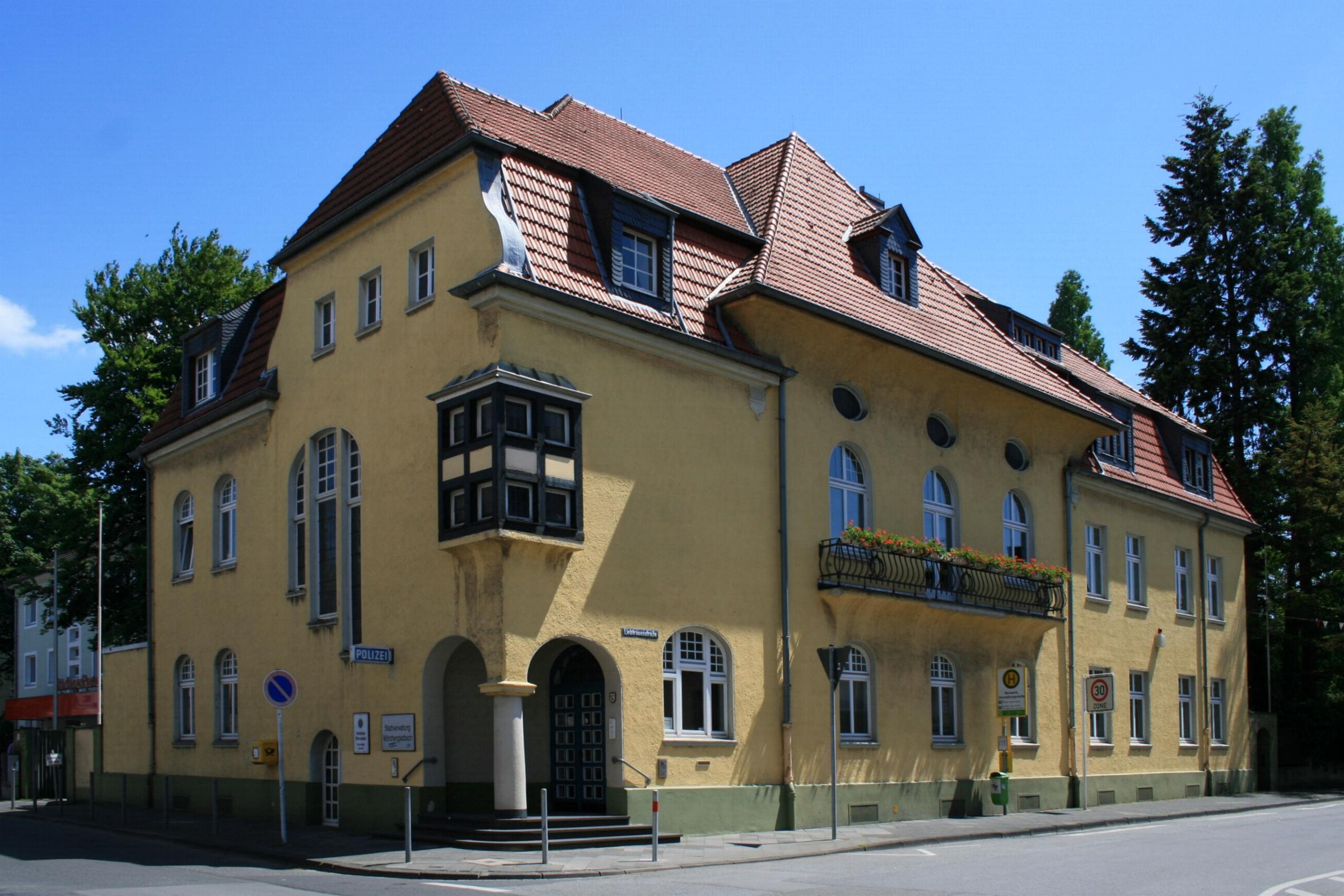 Cultural heritage monument No. L 013 in Mönchengladbach